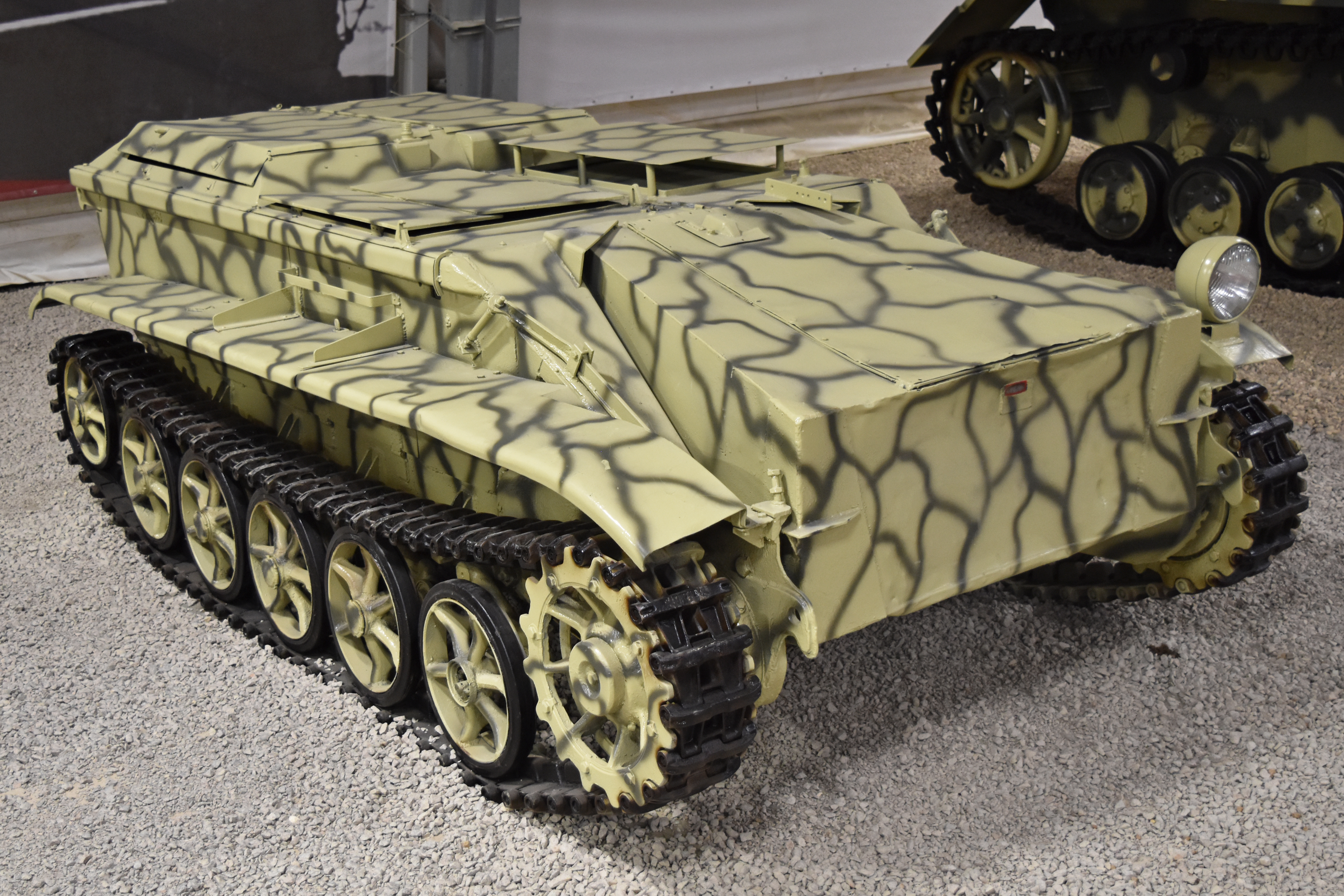 German WW2 Remote-controlled Demolition Tank Official designation:- Sd.Kfz.301 Schwerer Ladungsträger Borgward B IV Total production:- 1,181. The Borgward IV was designed to be driven to site manually by a driver in the vehicle and then positioned and detonated remotely. It was the largest of the three demolition tank designs used by the Germans in WW2. Only four are known to survive, this example is on display in Hall 10 of the Patriot Museum Complex. Park Patriot, Kubinka, Moscow Oblast, Russia. 25th August 2017